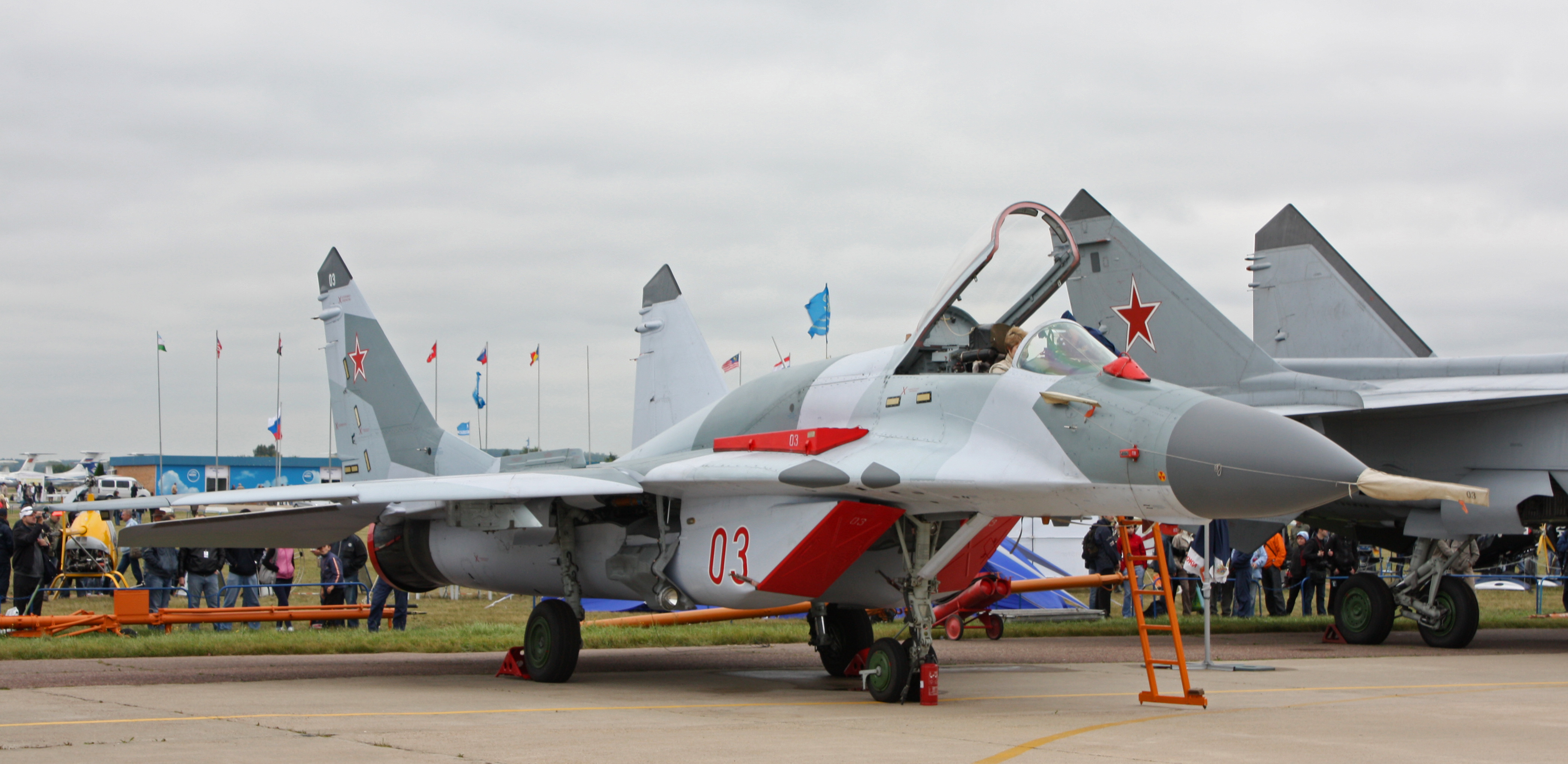 Mikoyan-i-Gurevich MiG-29SMT (The international aerospace salon MAKS-2009)